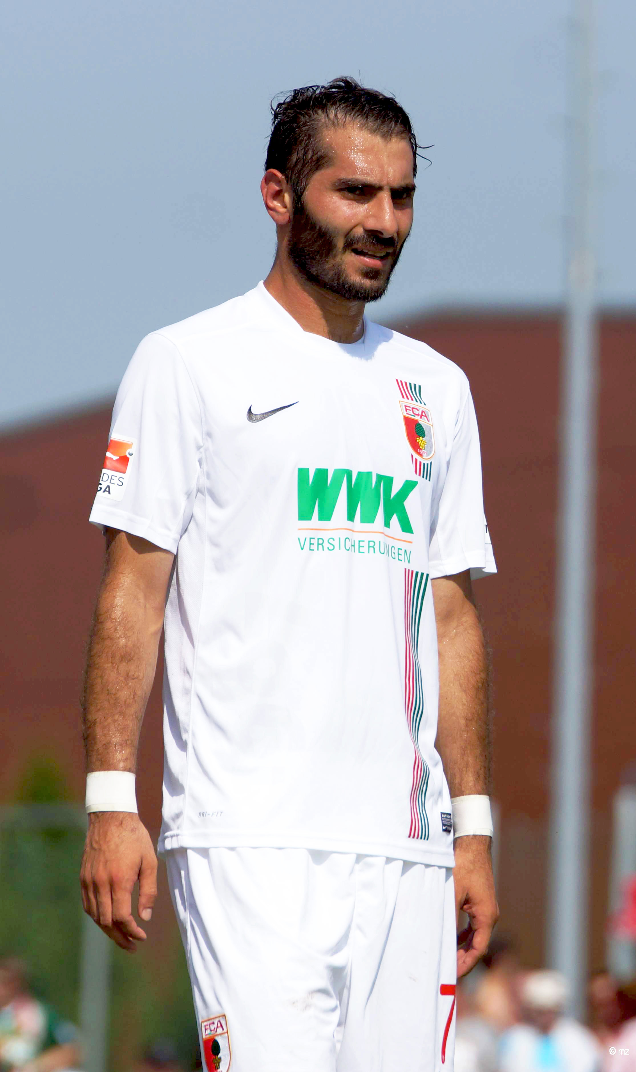 FC Augsburg